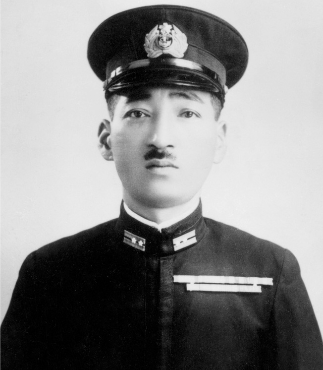 pd-Japan, Japanese production of mitsuo fuchida during his career. Japanese military photo and therefore copyright owned by the Japanese government.